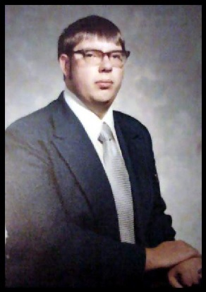 John Andrew Keith's high school graduation photo